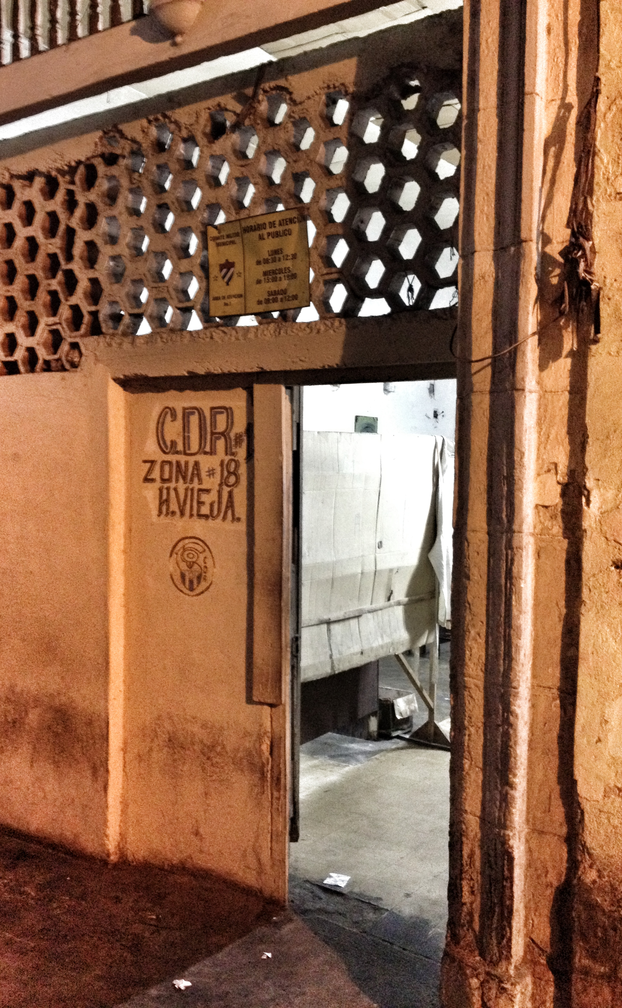 A Committee for the Defense of the Revolution in Old Havana on Paseo de Martí, facing Parque Central